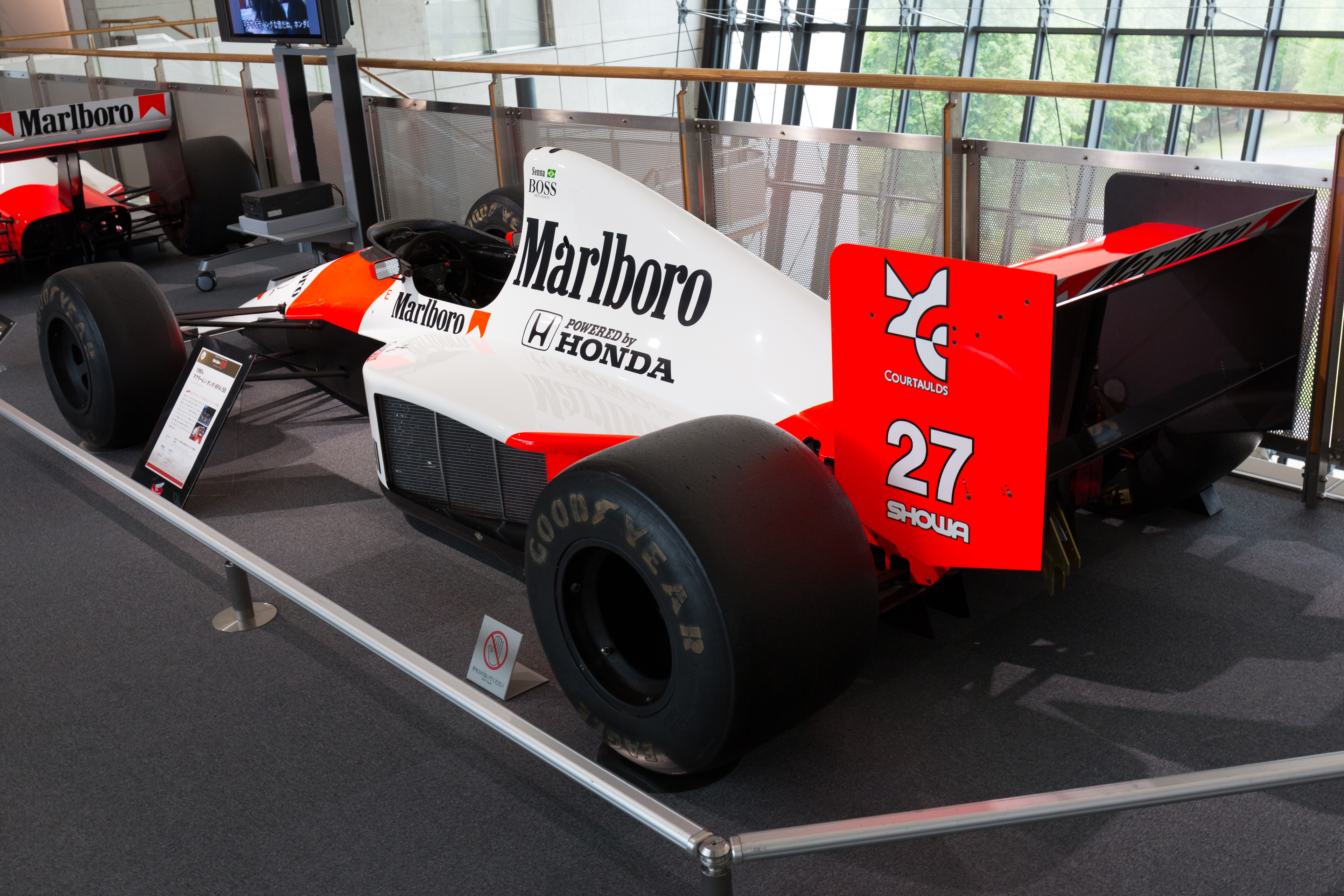 1990 McLaren MP4/5B of Ayrton Senna